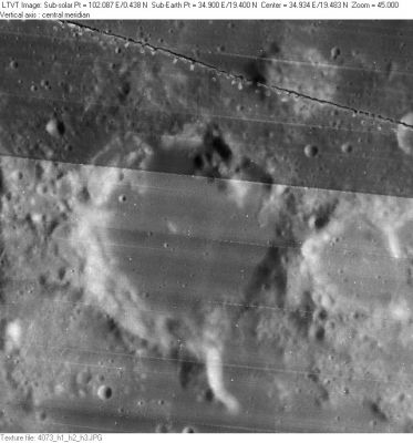 LO-IV-073H Maraldi is in the center. The button-like circle of hills to its northeast is Mons Maraldi. 18-km Maraldi F is just to the right of the main crater, and half of 8-km Maraldi A can be seen above it along the right margin.